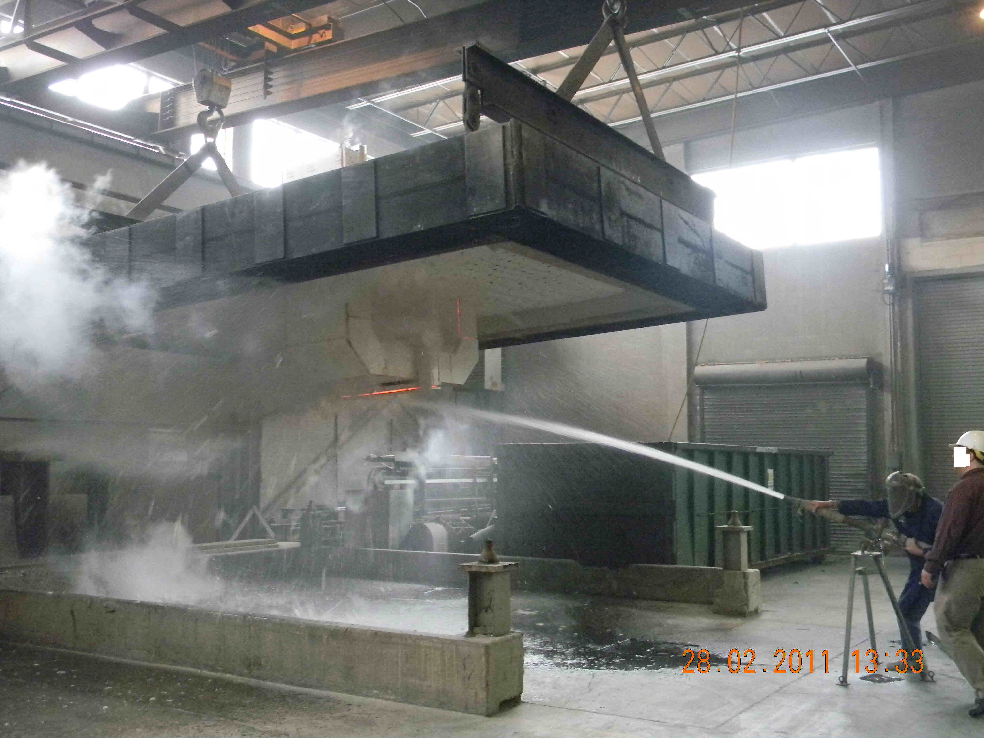 After successful 3 hour circuit integrity fire test per USNRC Generic Letter 86-10 Supplement 1 the test sample is now being hose stream tested, 2 minutes, 30 PSI (2 bars). The cable tray and wiring on the inside must not become visible and no through-projection of water through the firestops may occur.